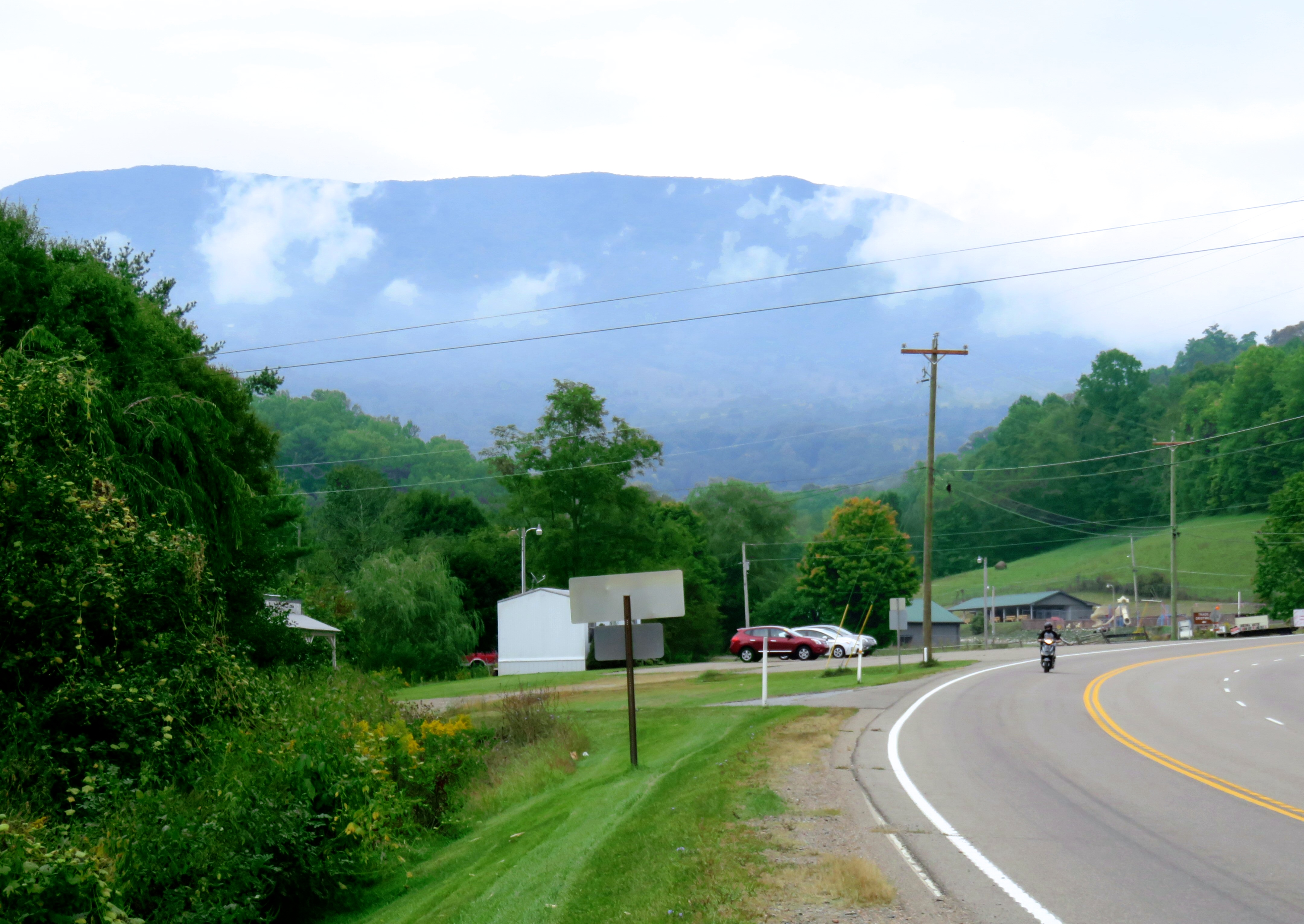 Snake Mountain, viewed from the Trade community of Johnson County, Tennessee, United States. U.S. Route 421 is on the right.